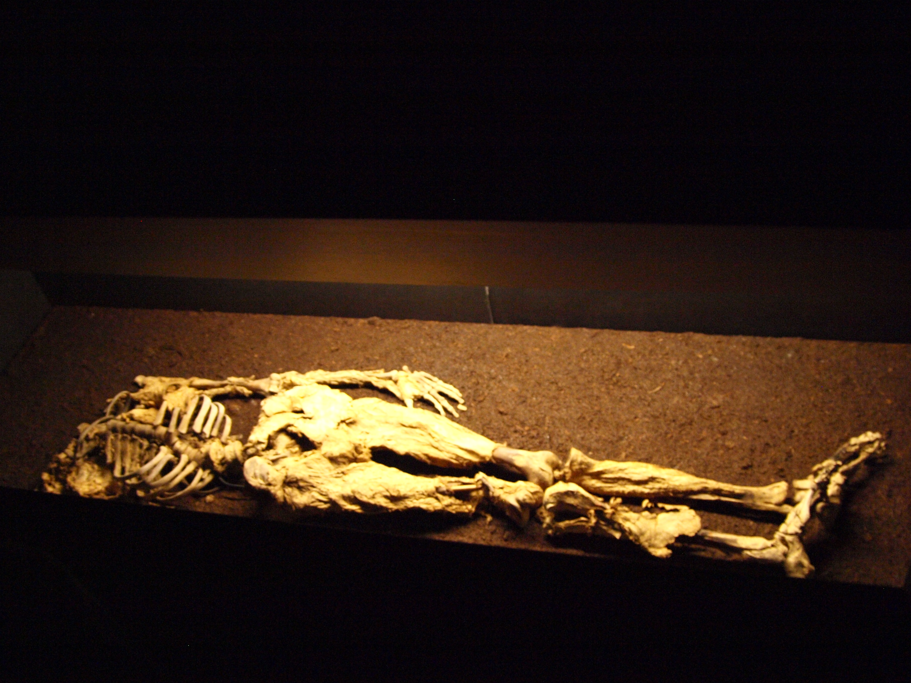 The bog body Dätgen Man on display at Archäologisches Landesmuseum Gottorf Castle, Schleswig Germany. Found in 1959 in the Großen Moor south of Dätgen. C14 dated beween 135 and 385 AD.